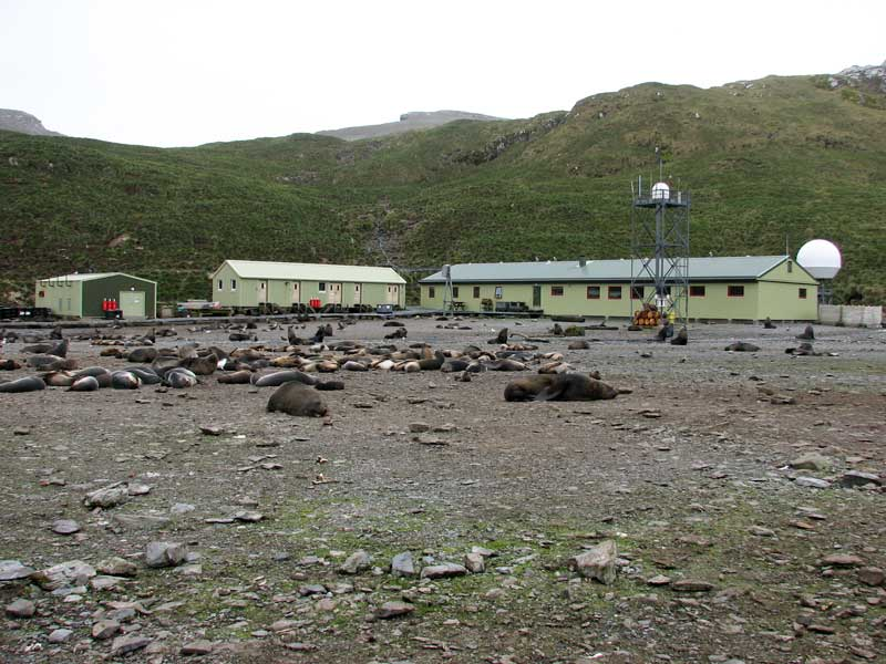 Bird Island Research Station